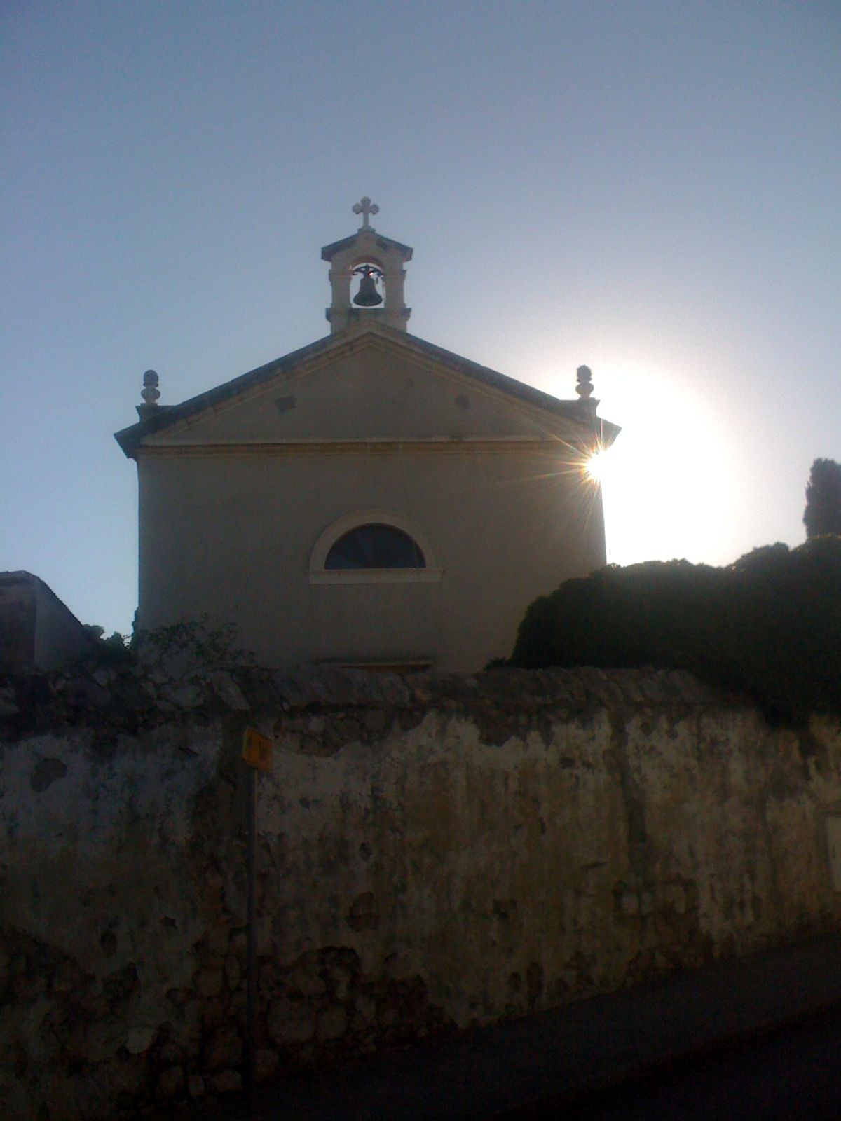 Orthodox church at Boninovo